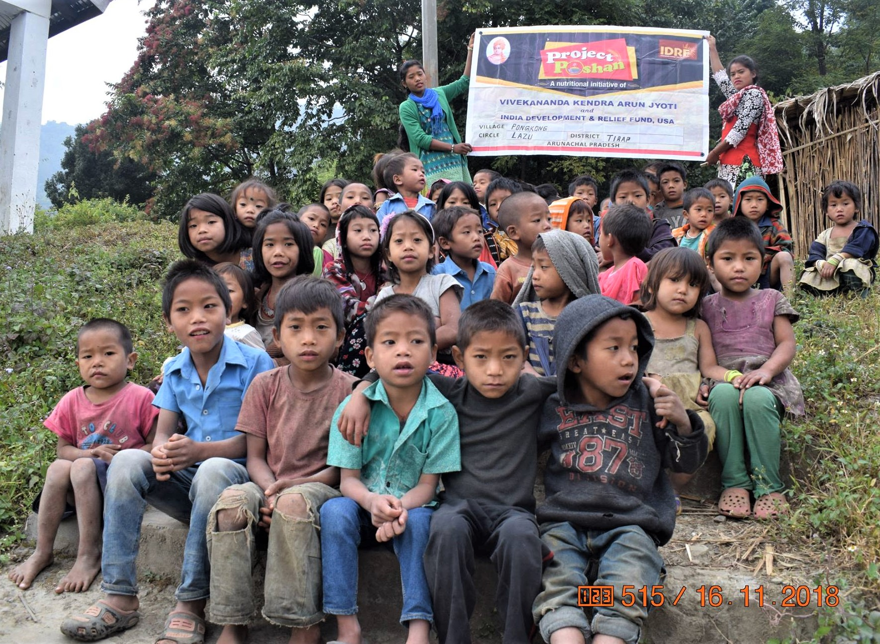 Children and women from 12 villages with severe symptoms have been identified in the first phase. Children are provided nutritious meals through Balwadis and women given dietary supplements by health workers. Regular health awareness camps are conducted to monitor the changes and special care given to pregnant and lactating women. This 3 year project require us to raise $15,000 per year in order to fight malnutrition among children and women in remote tribal villages.